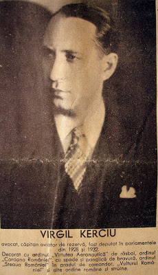 Photo of Virgil Kerciu in 1936